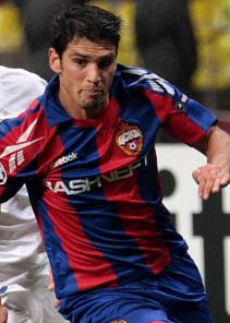 Mark González against Internazionale Milano